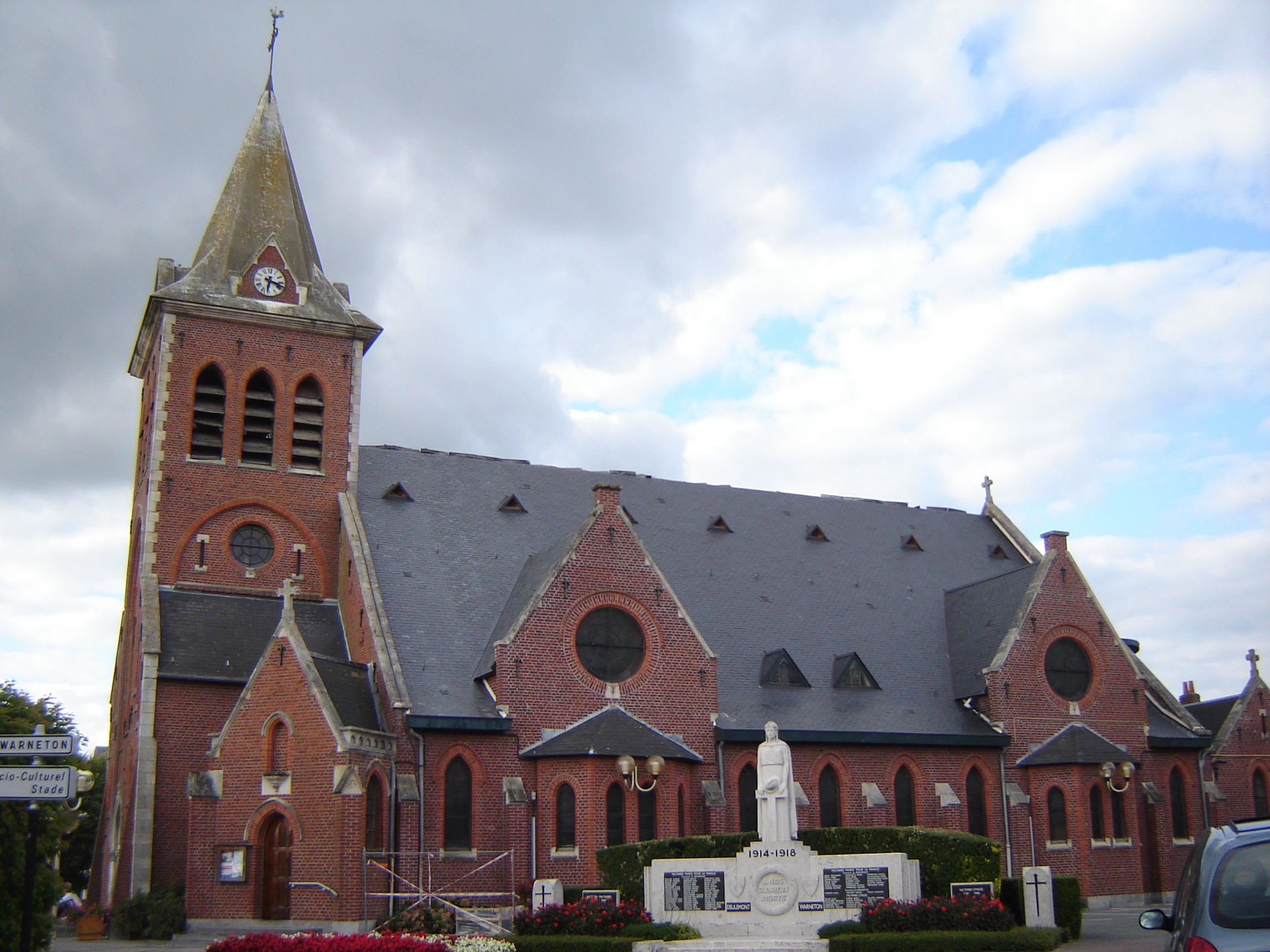 Church of Saint Symphorian in Deûlémont. Deûlémont, Nord, Nord-Pas-de-Calais, France